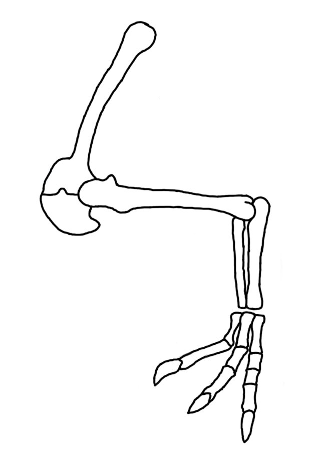 Drawing of the holotype forelimb and shoulder girdle of Deinocheirus mirificus, a deinocheirid ornithomimosaurian from the Nemegt Formation of Mongolia.